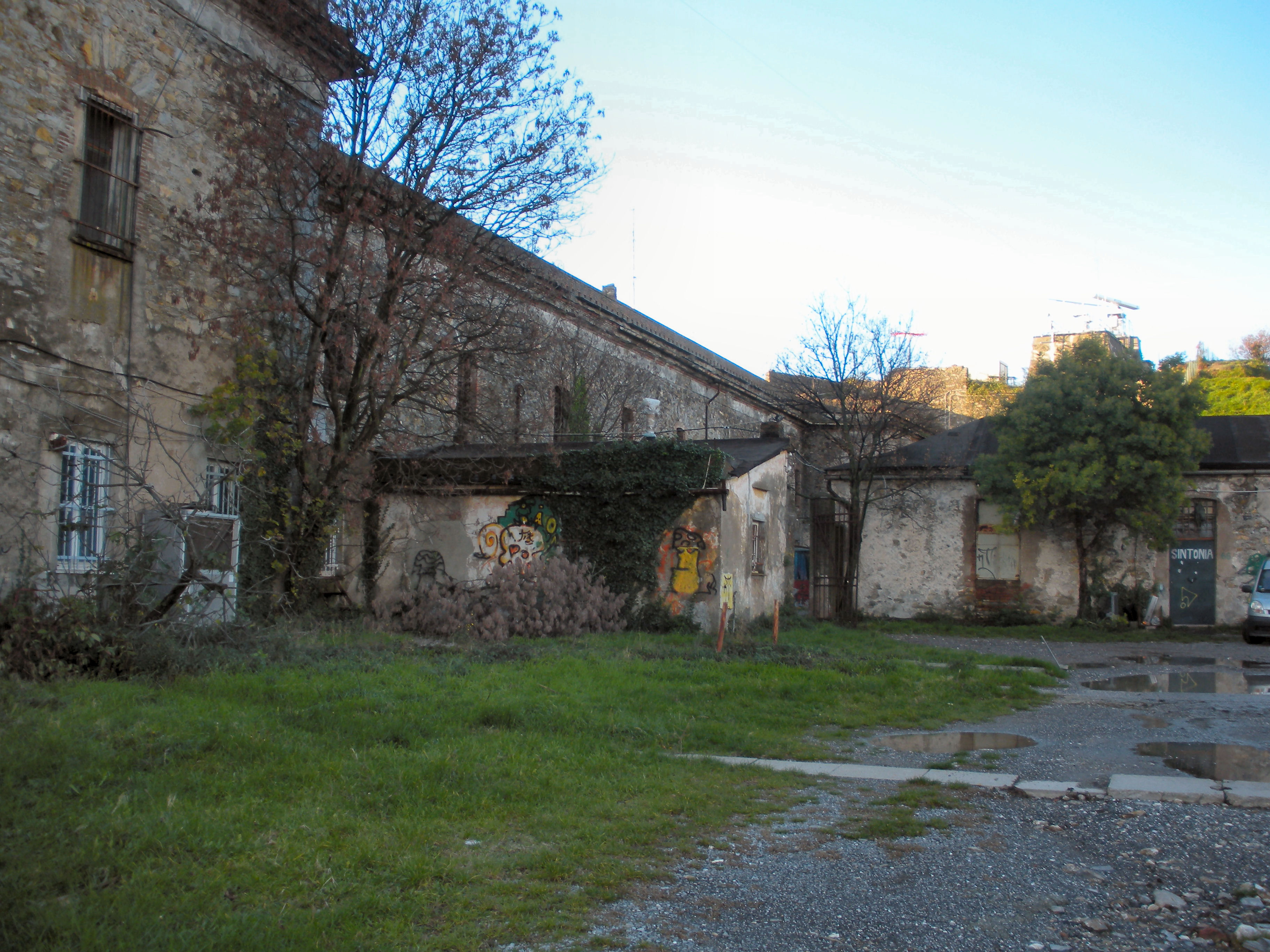 Genoa (Italy), the barracks inside Fort Castellaccio